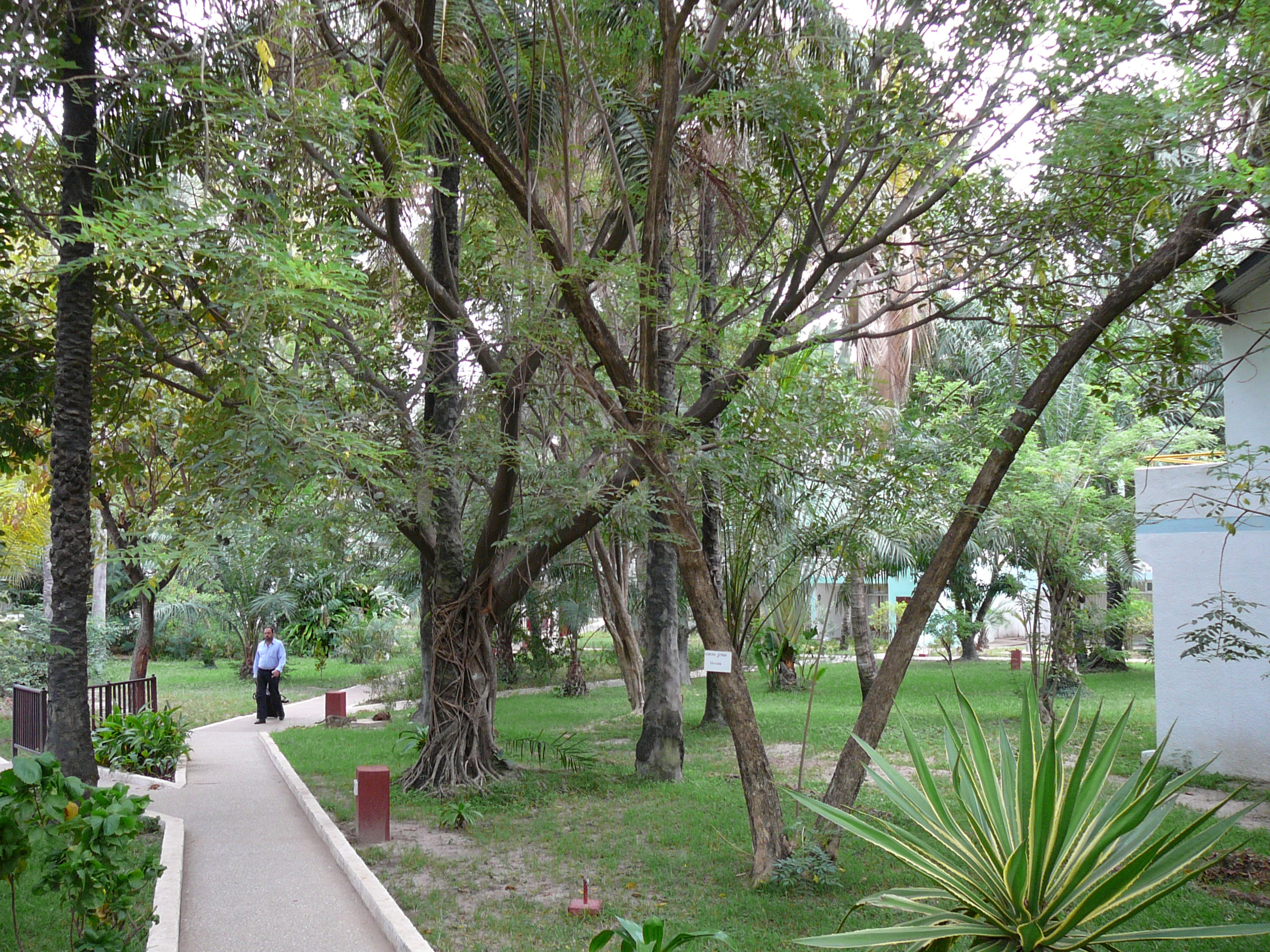 Shade tree